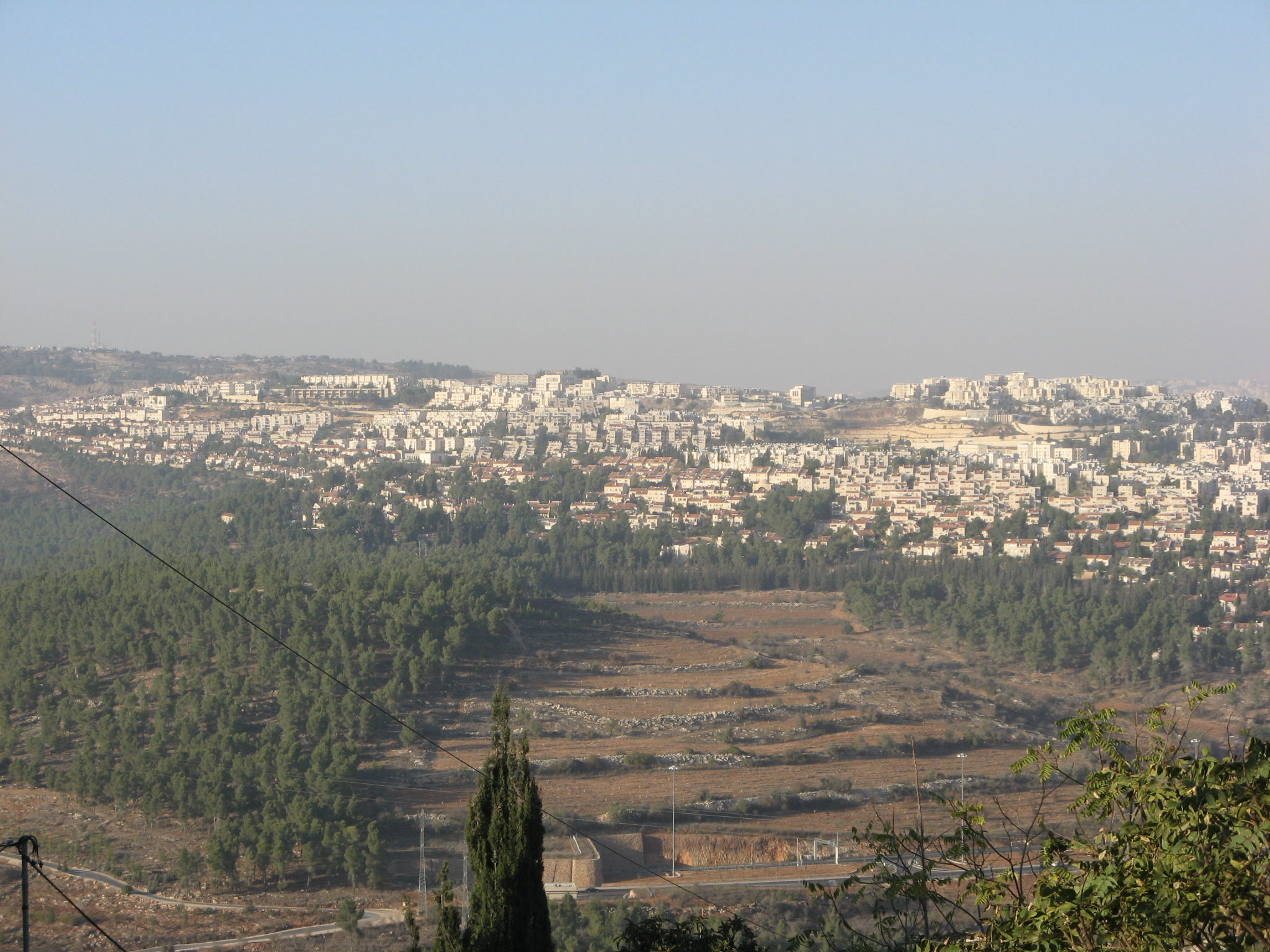 Ramot Neighborhood from the entrance to Jerusalem